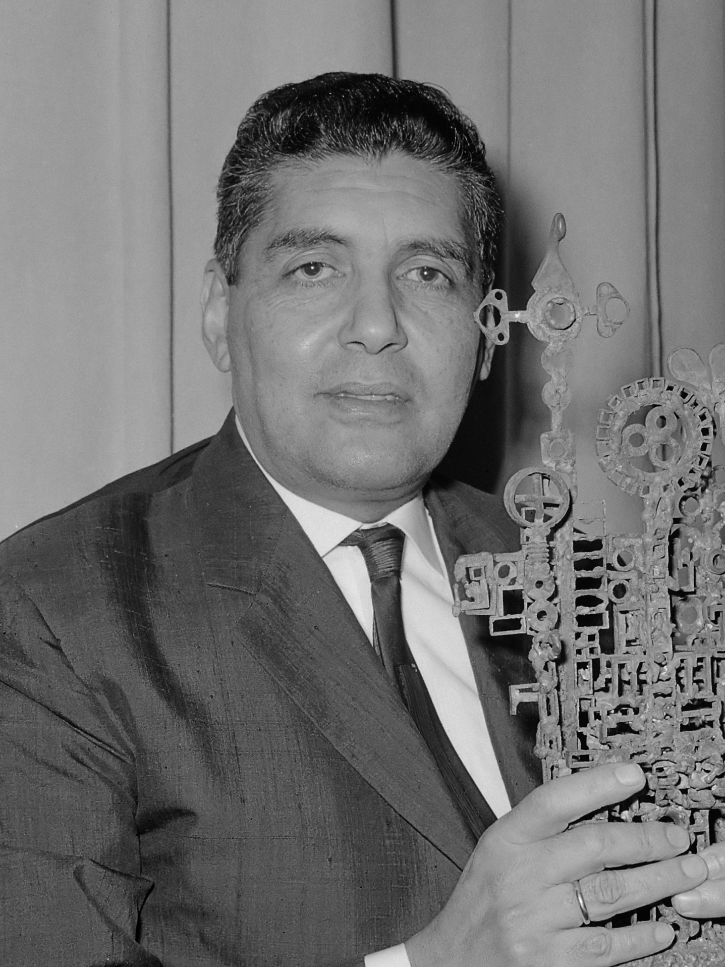 Boy Edgar wins Dutch Jazz challenge trophy 1964, Boy Edgar with trophy (Wessel Ilcken Award, designed by Jan Wolkers).